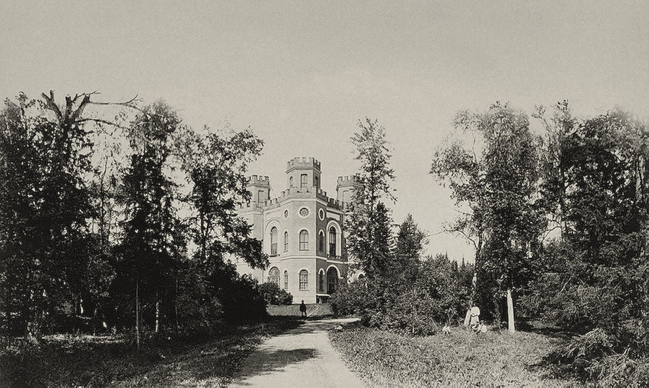 Tsarskoye Selo (Russia), Arsenal in the Alexander Park.